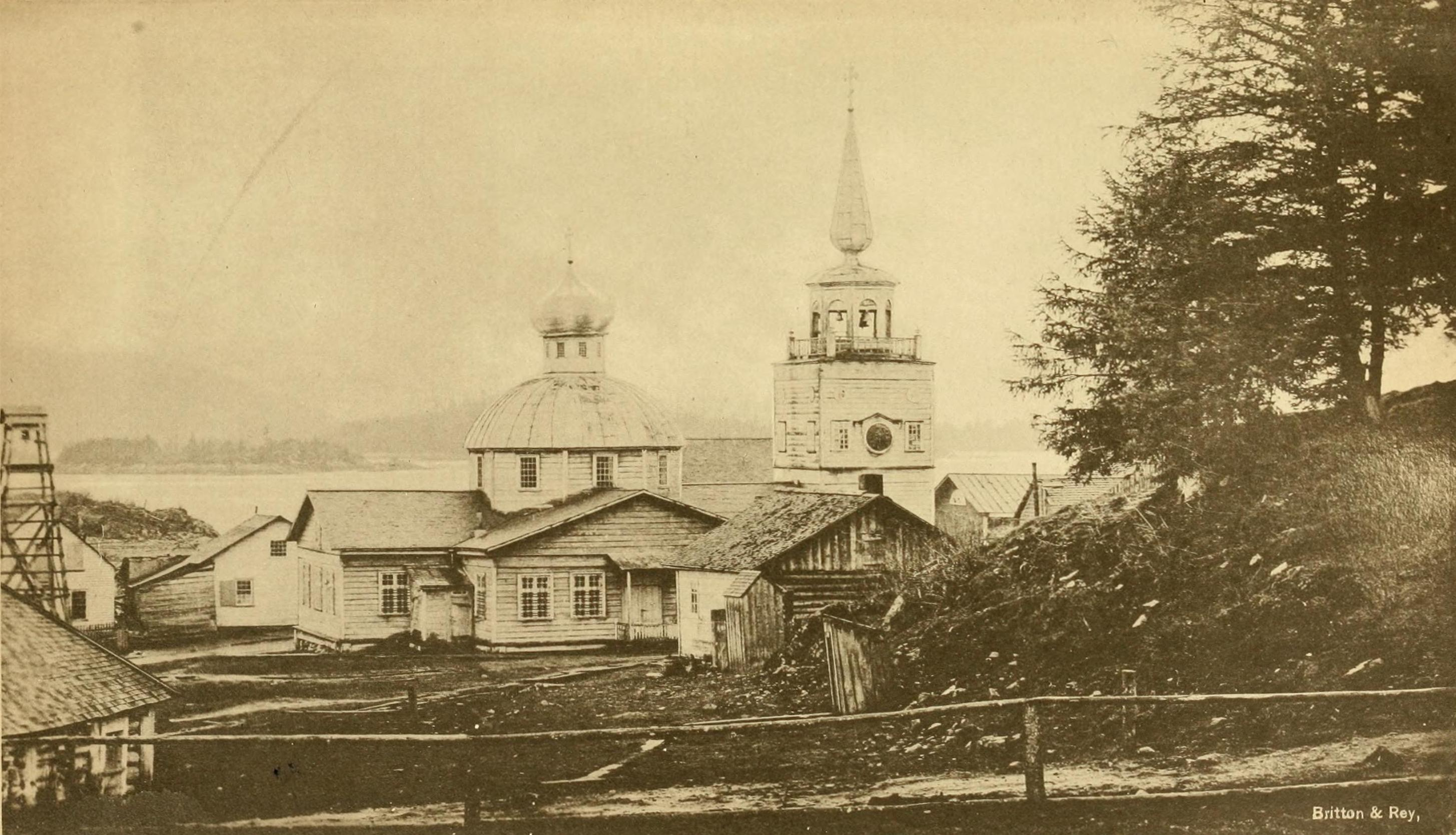 View of Saint Michael's Cathedral, Sitka, Alaska, showing the side entrance and a neighboring house, probably 1880s.